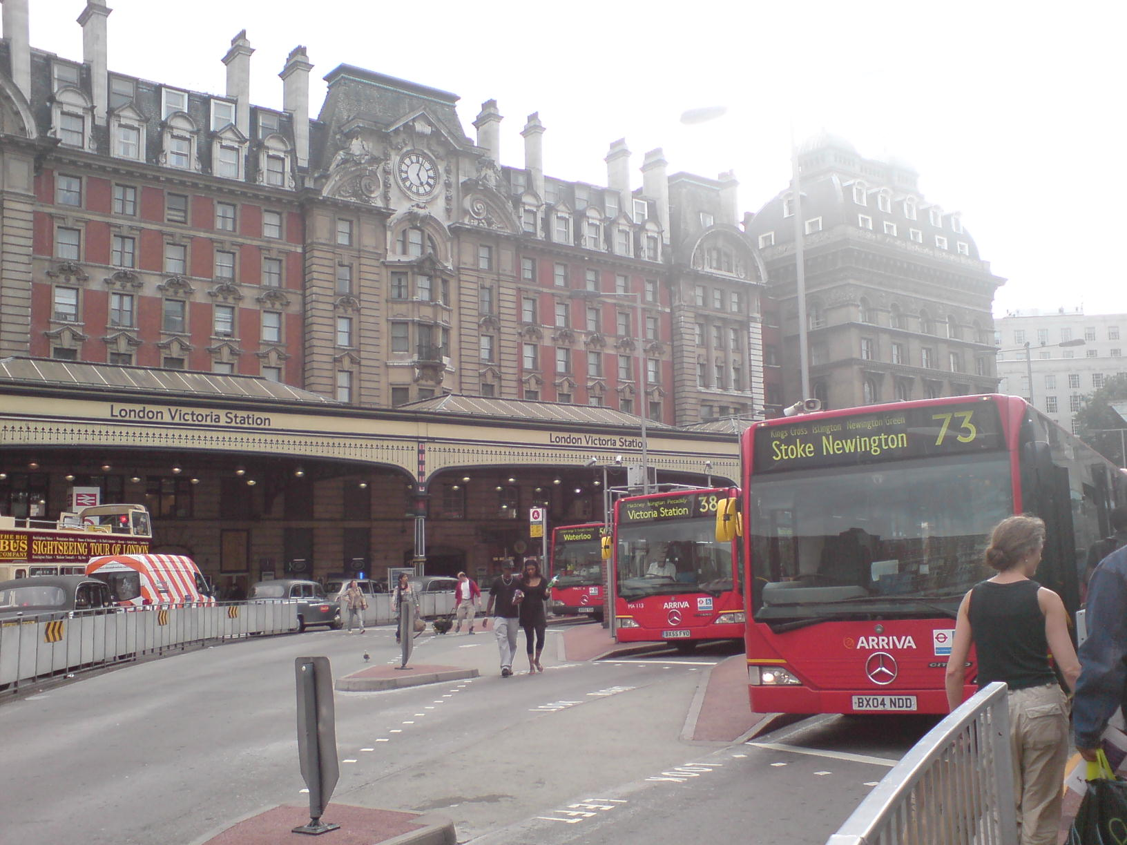 Victoria Bus Station, with three atriculated "bendy" buses in the foreground loading up before departure. IN the background is the frontage to the main line station.